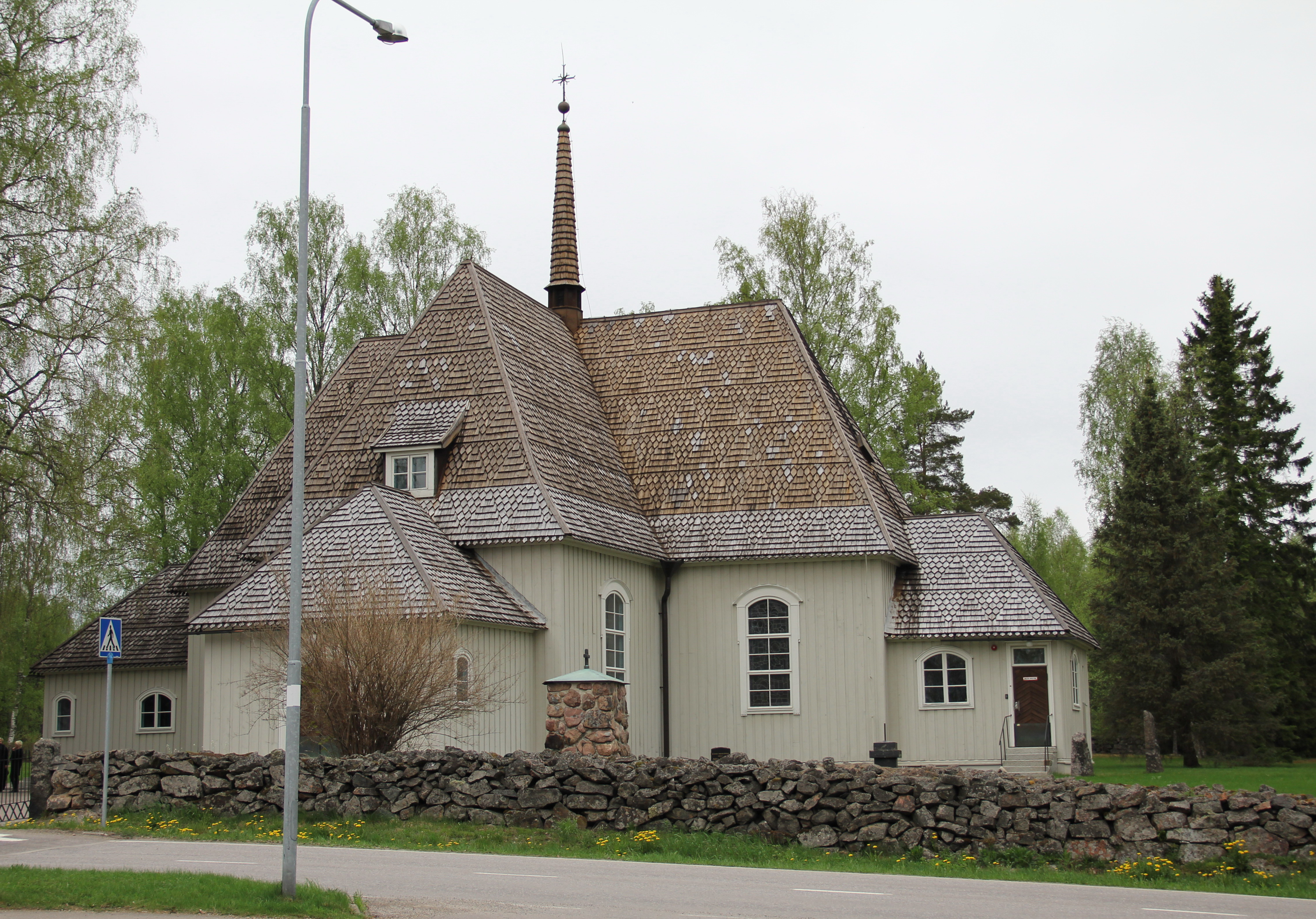 Heinola Rural Parish church, in Heinola, Finland. It was completed in 1755 and built most likely by August Sorsa. Photo taken from southeast.